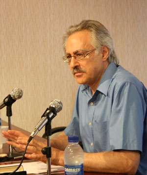 Javad tabatabai is giving lecture.